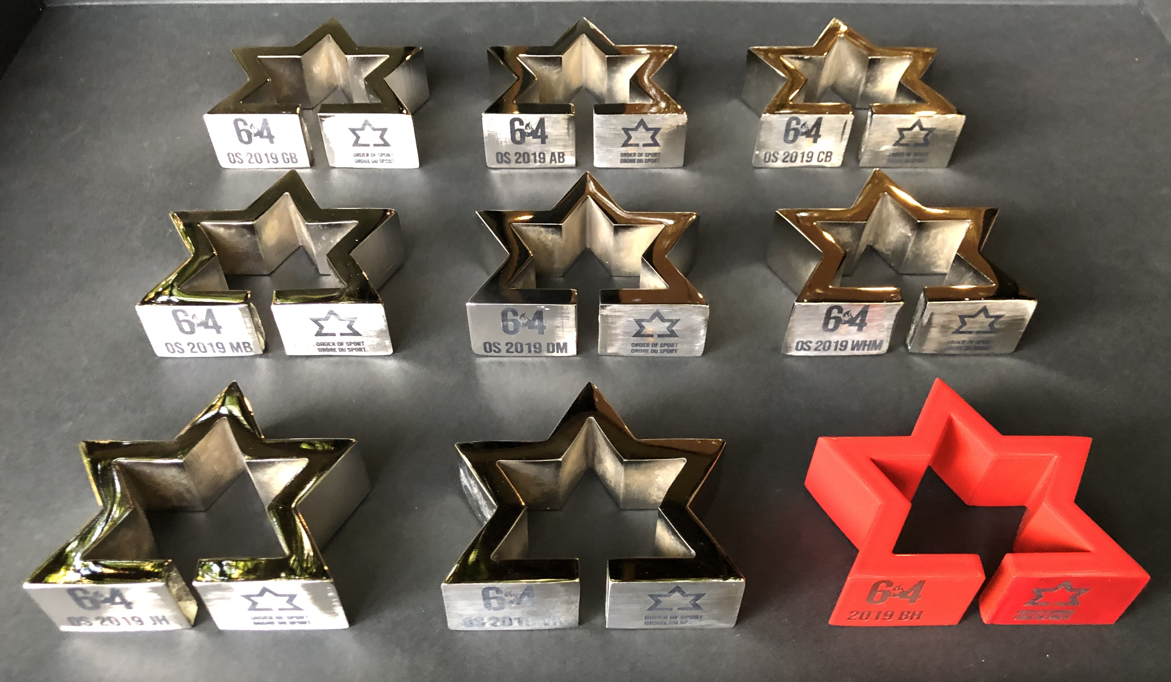 The eight inaugural Order of Sport honourees received the solid silver award upon their induction into Canada's Sports Hall of Fame. The Inaugural People's Choice award in red was awarded by popular vote.